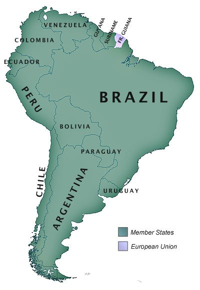 South American Community of Nations member states.